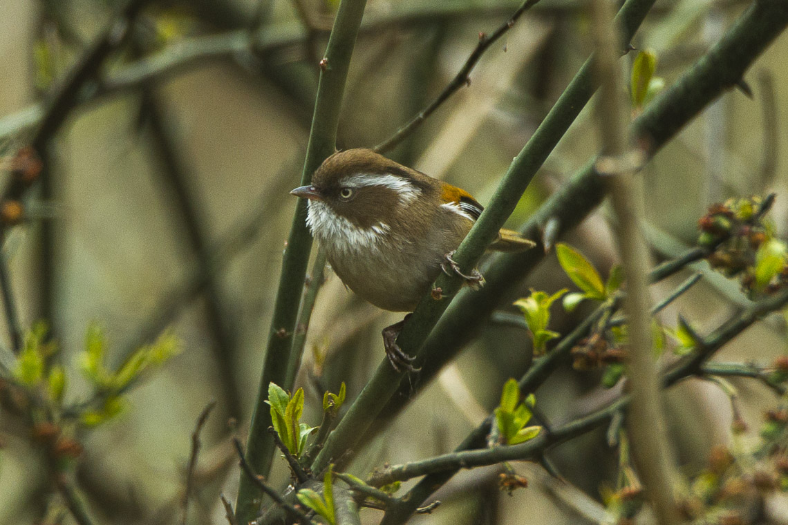 White-browed Fulvetta - Bhutan_S4E8241